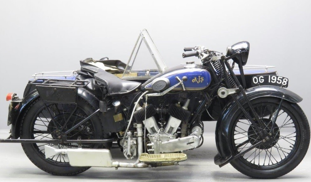 1930 AJS Model R2 Side valve V-twin motorcycle, right side